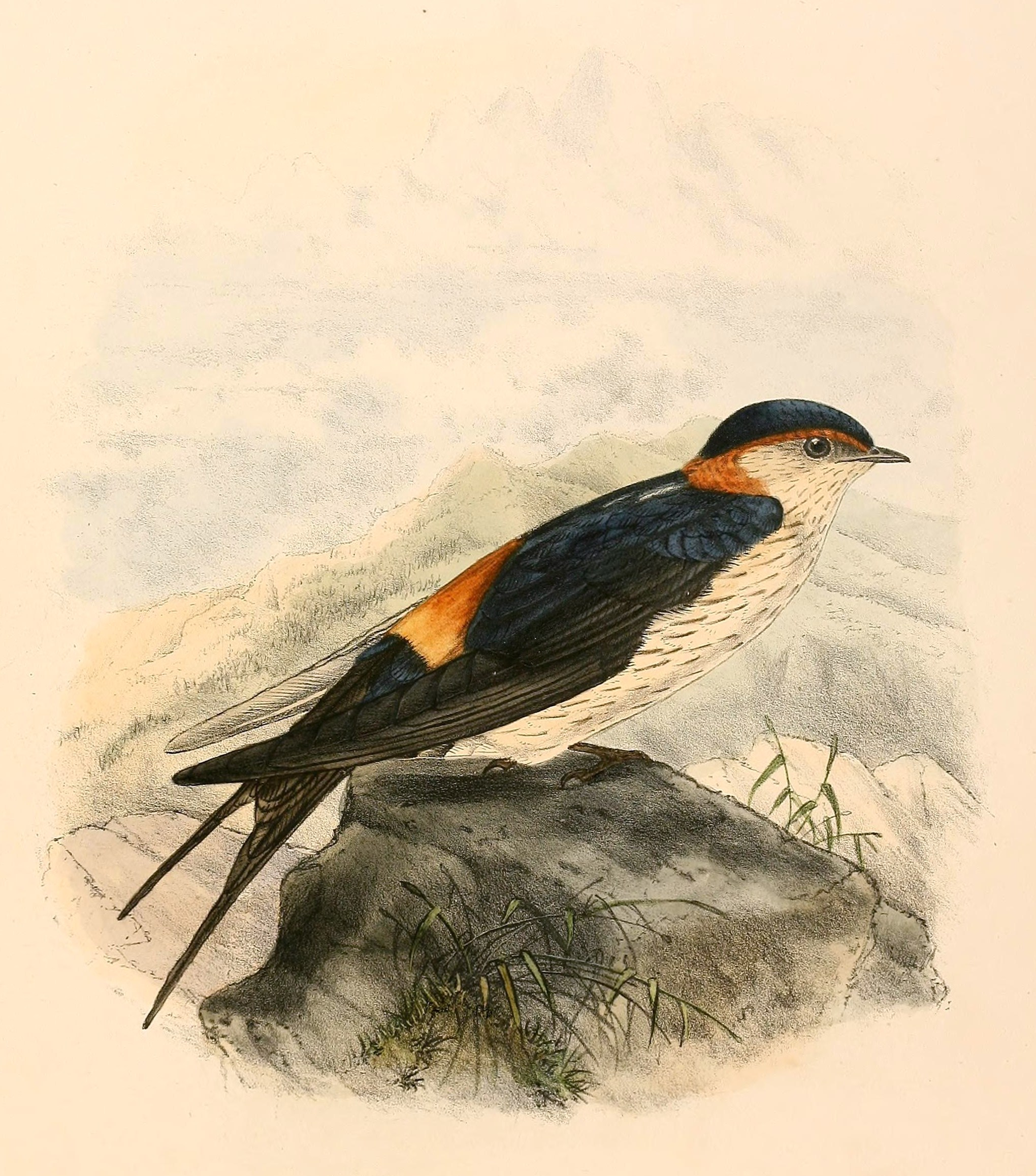 « Hirundo nipalensis » = Cecropis daurica nipalensis (Subspecies of Red-rumped Swallow)